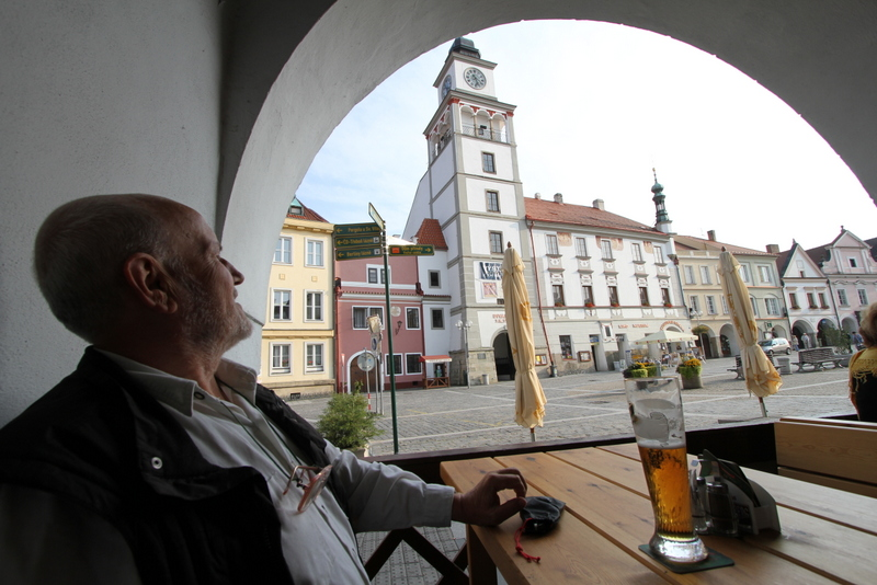 Bílý koníček hotel and Masaryk square, Třeboň, Czech Republic